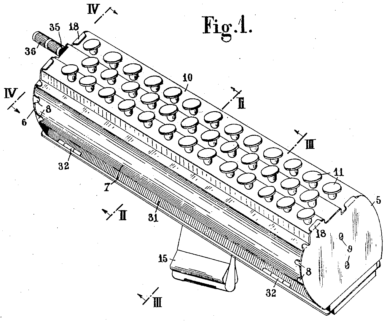 Drawing from U.S. Patent 2,461,806 describing André Borel's improved "chromatic harmonicon" with chromatic button accordion keyboard. This instrument, a type of melodica, is better known as the accordina.